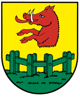 Coat of arms of Morschach, Canton Schwyz, Switzerland